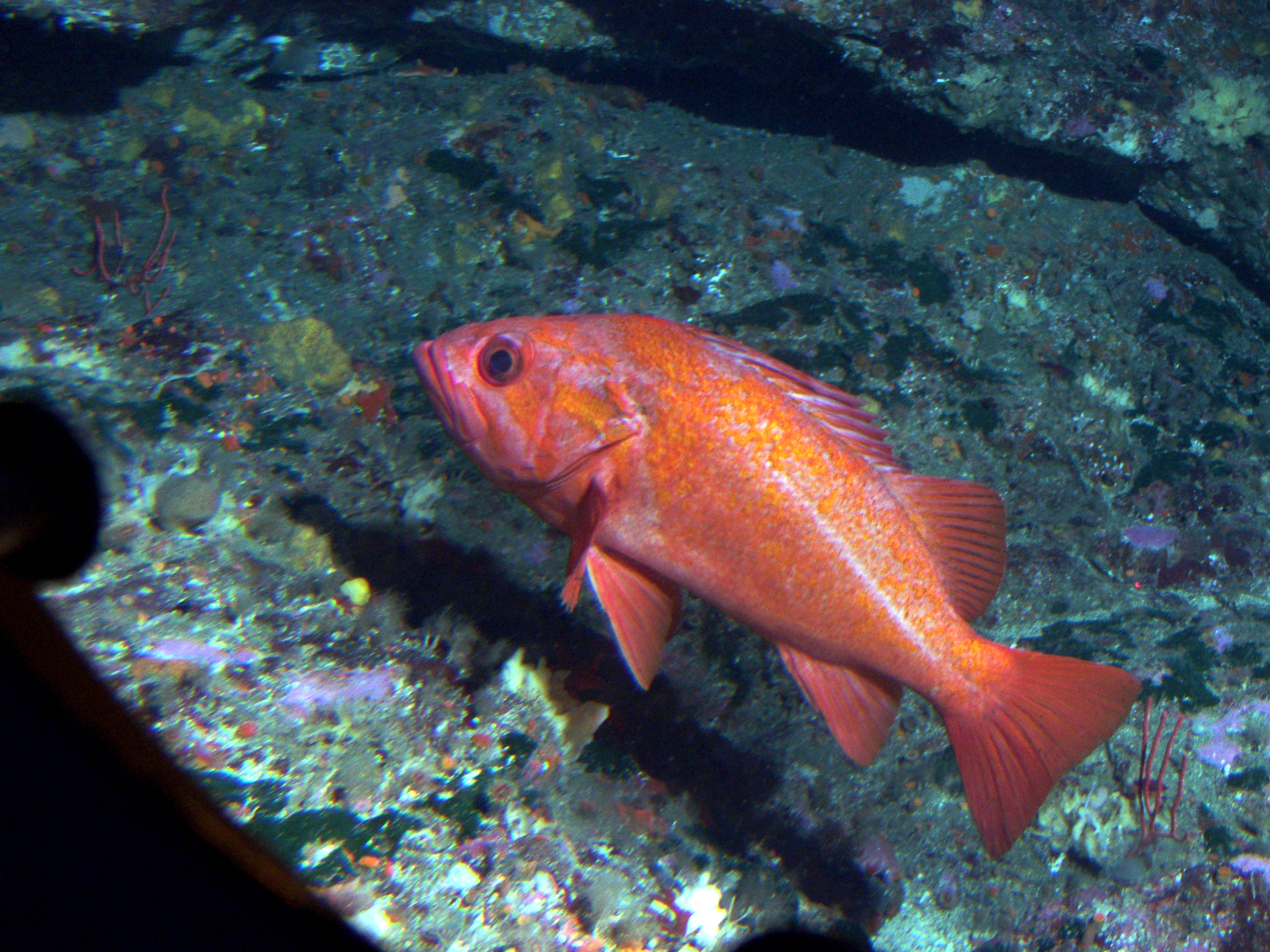 Vermillion Rockfish (Sebastes miniatus) close up with invertebrates on rock outcropping at 57 meters depth. Latitude 37 59 N., Longitude 123 25 W. California, Cordell Bank National Marine Sanctuary.